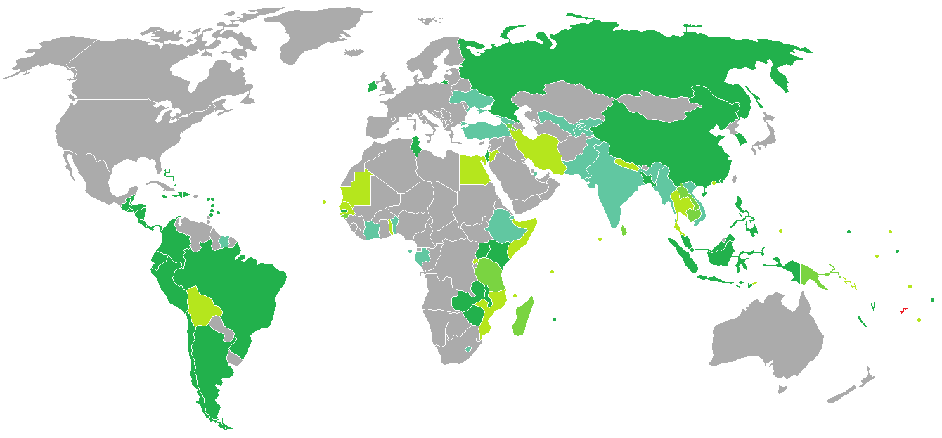 Visa requirements for Fijian citizens Fiji Visa free Visa issued upon arrival eVisa Visa available both on arrival or online Visa required